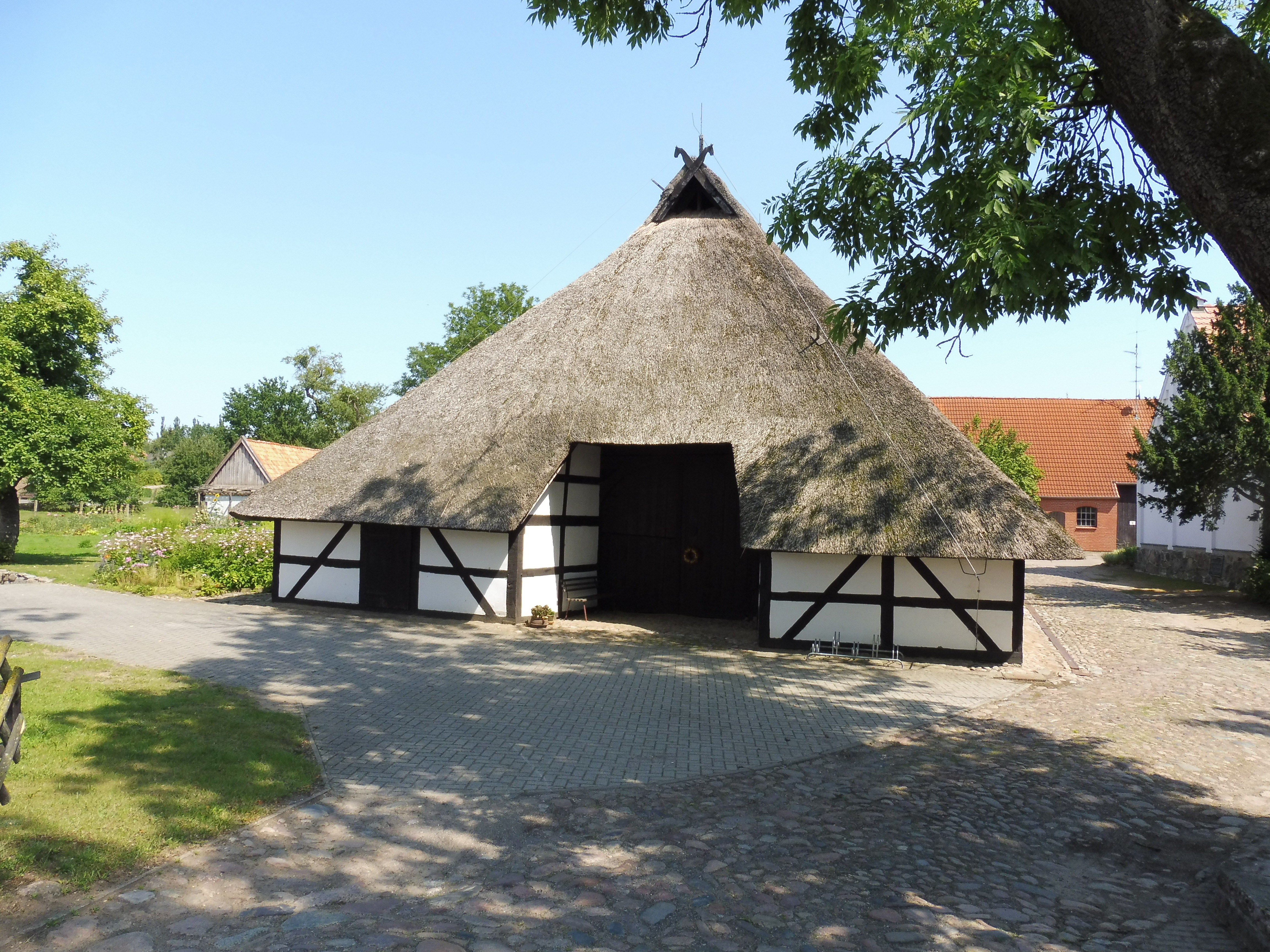 This Low German house is listed. It is located Dorfstrasse 8 in Schwerin in Mecklenburg-Vorpommern and home to family-owned village museum Dat oll' Hus (Low German for The old house).